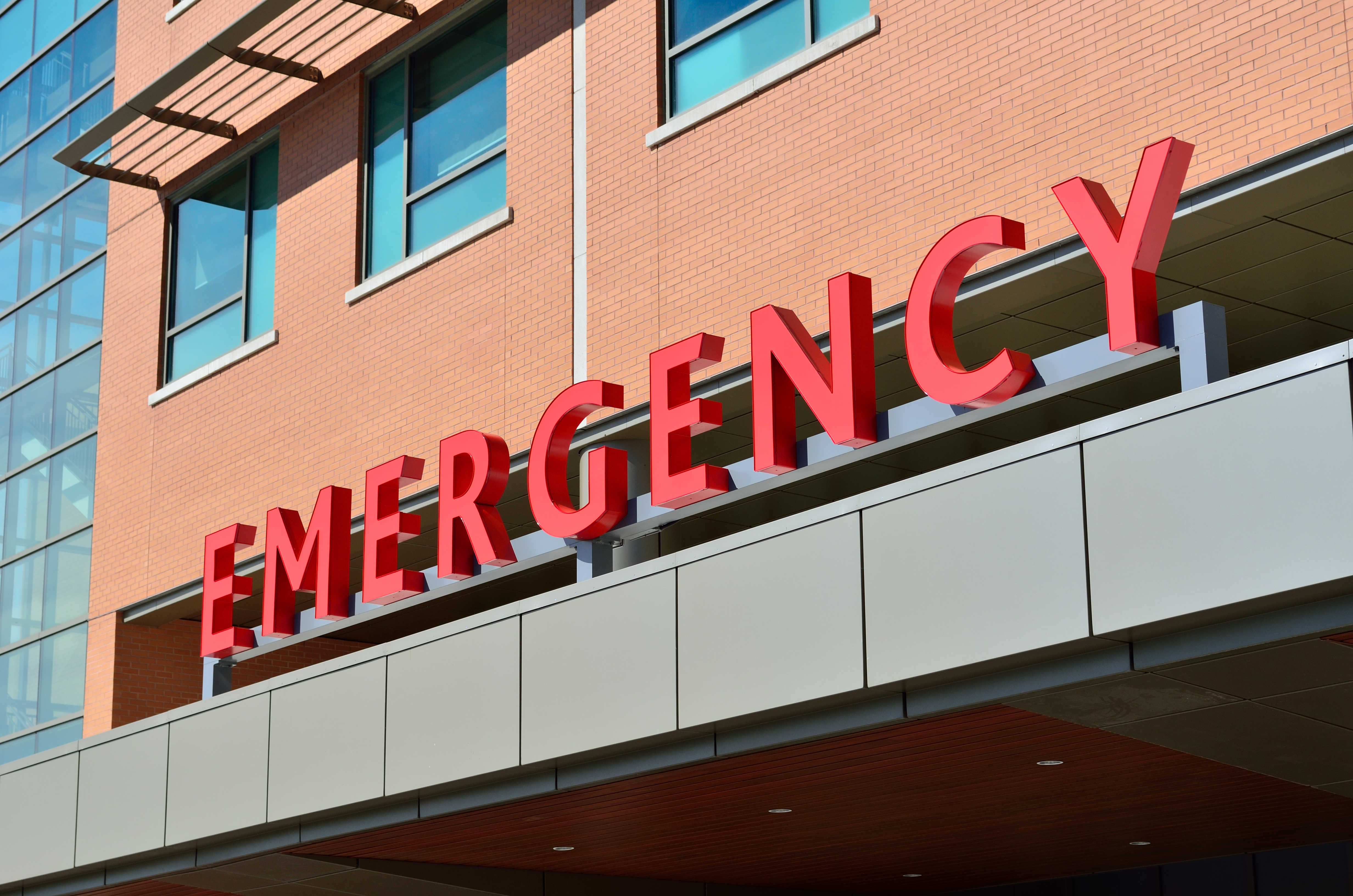 Emergency Department at Markham Stouffville Hospital